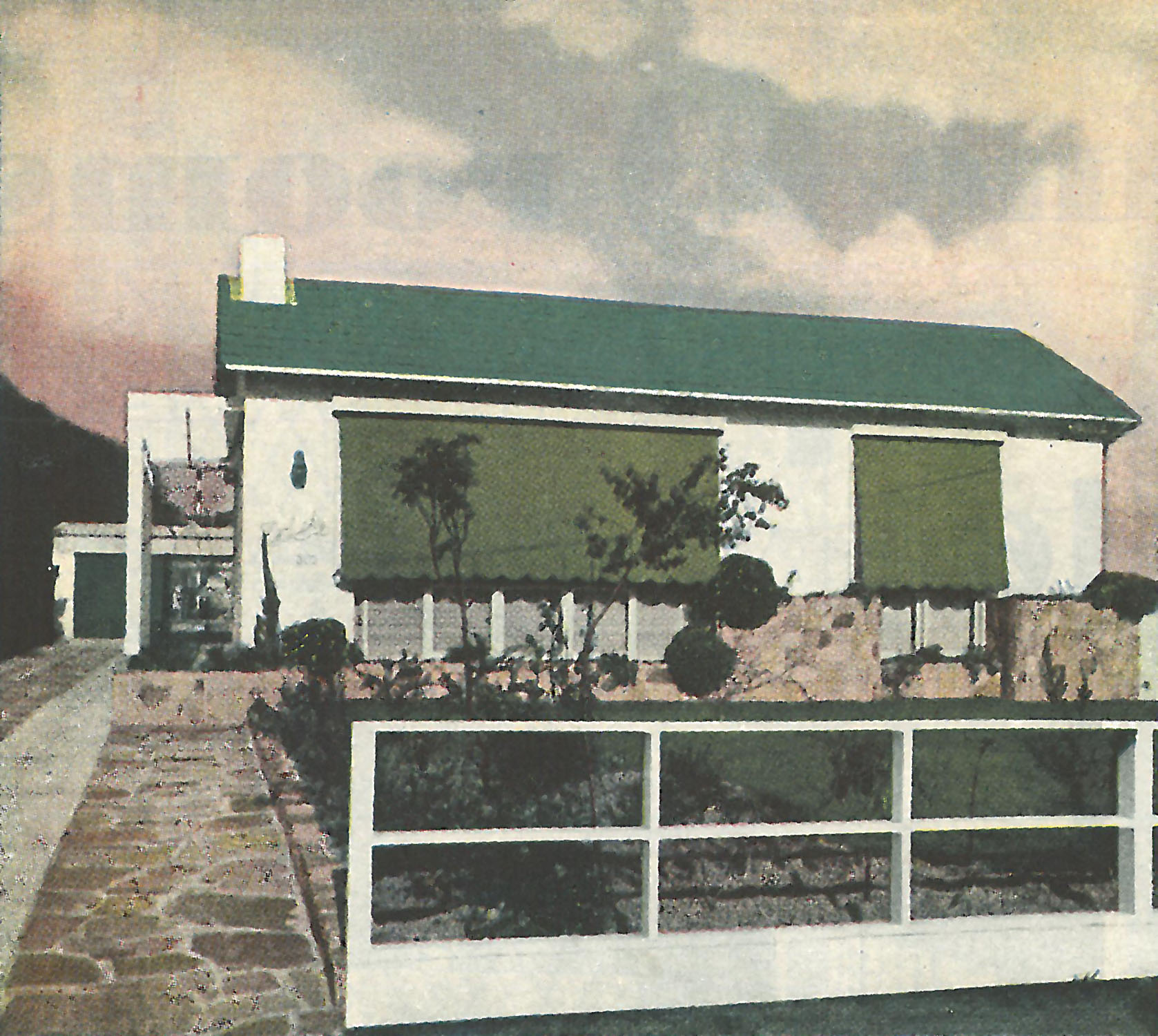 Jacobson Residence